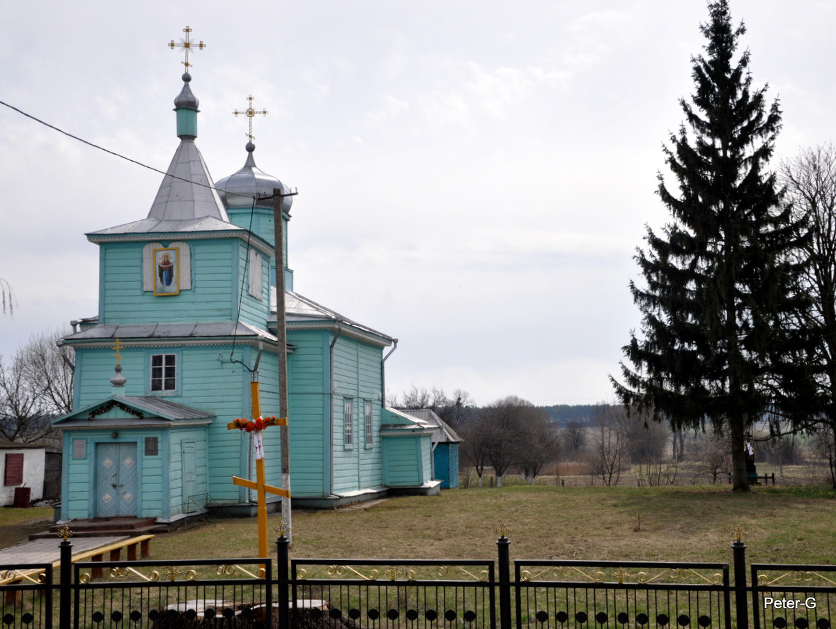 Church in Lubytiw (Volyn', Ukraine)